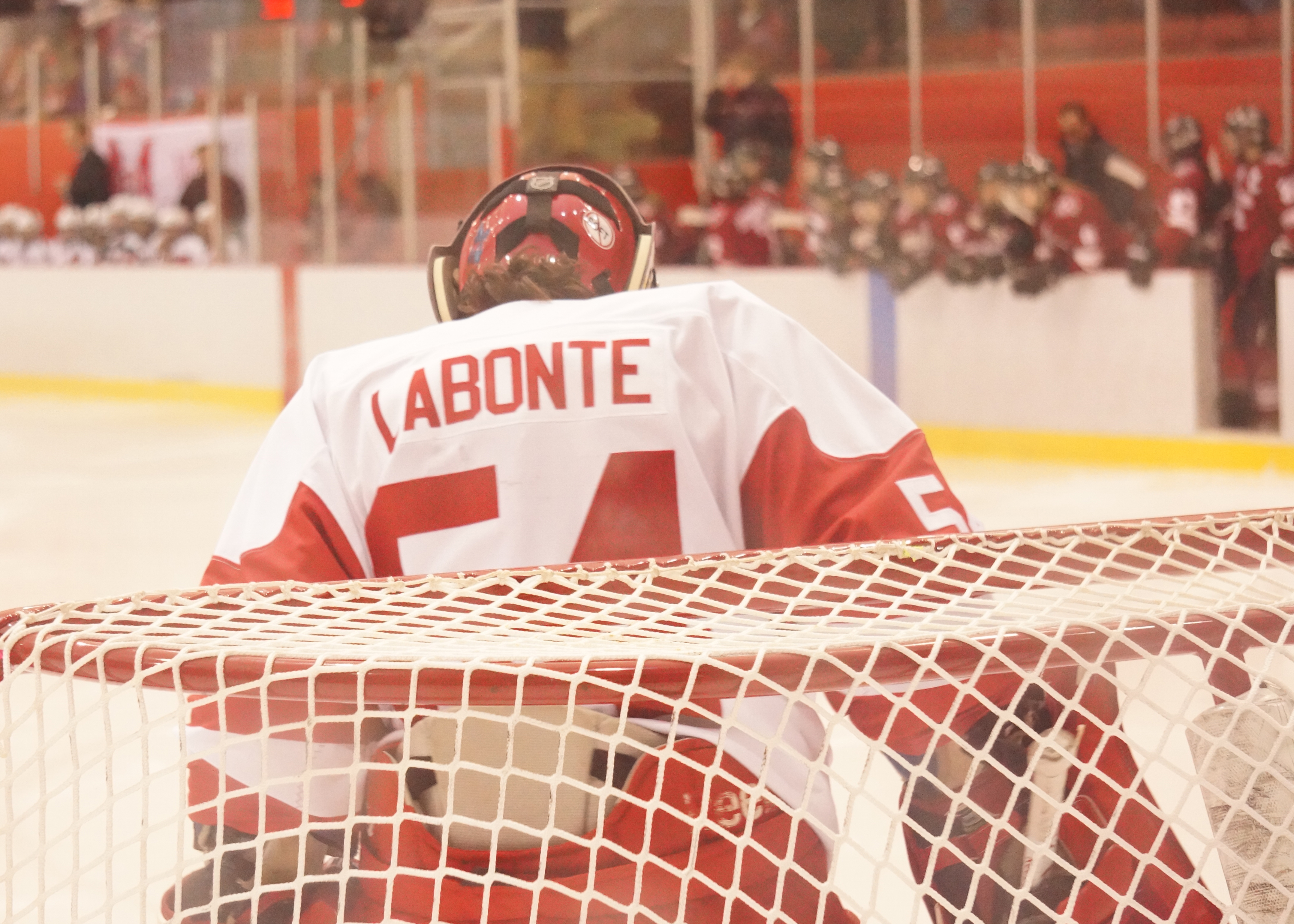 Charline Labonté is a women's ice hockey player. Labonté now lives in Montreal, and is studying Physical Education at McGill University. She plays for the McGill Martlets ice hockey and the Canada women's national ice hockey team